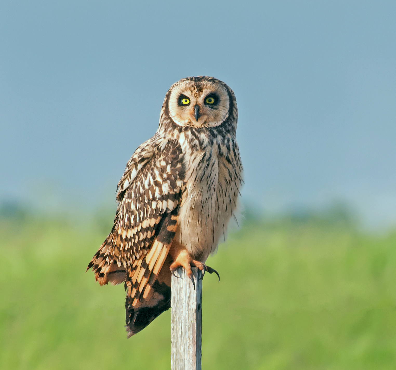 A Short-eared Owl at Fazenda Campo de Ouro, Piraju, São Paulo, Brazil.